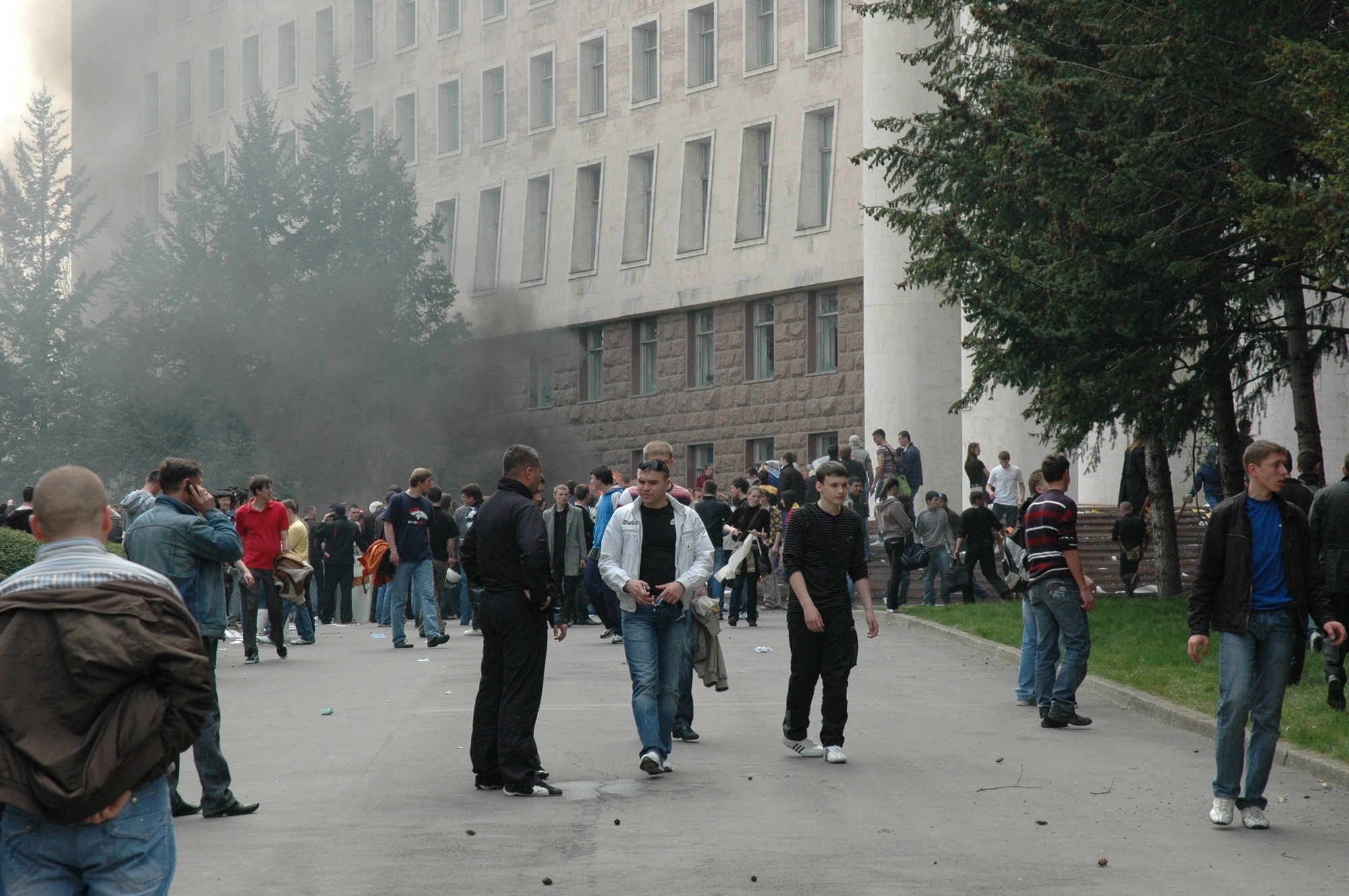 Protest riot in Chisinau after the 2009 Parliamentary Elections